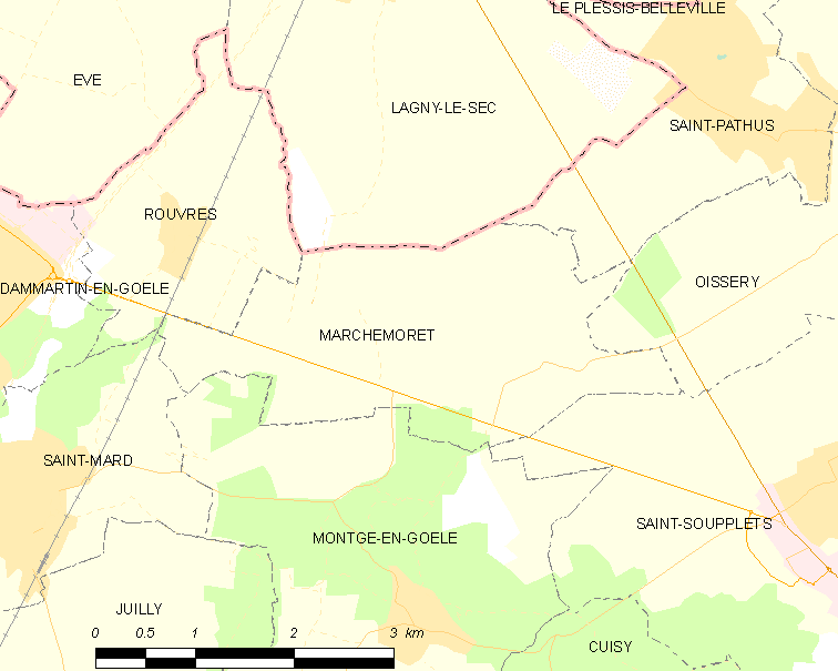 Map of French municipality Marchémoret